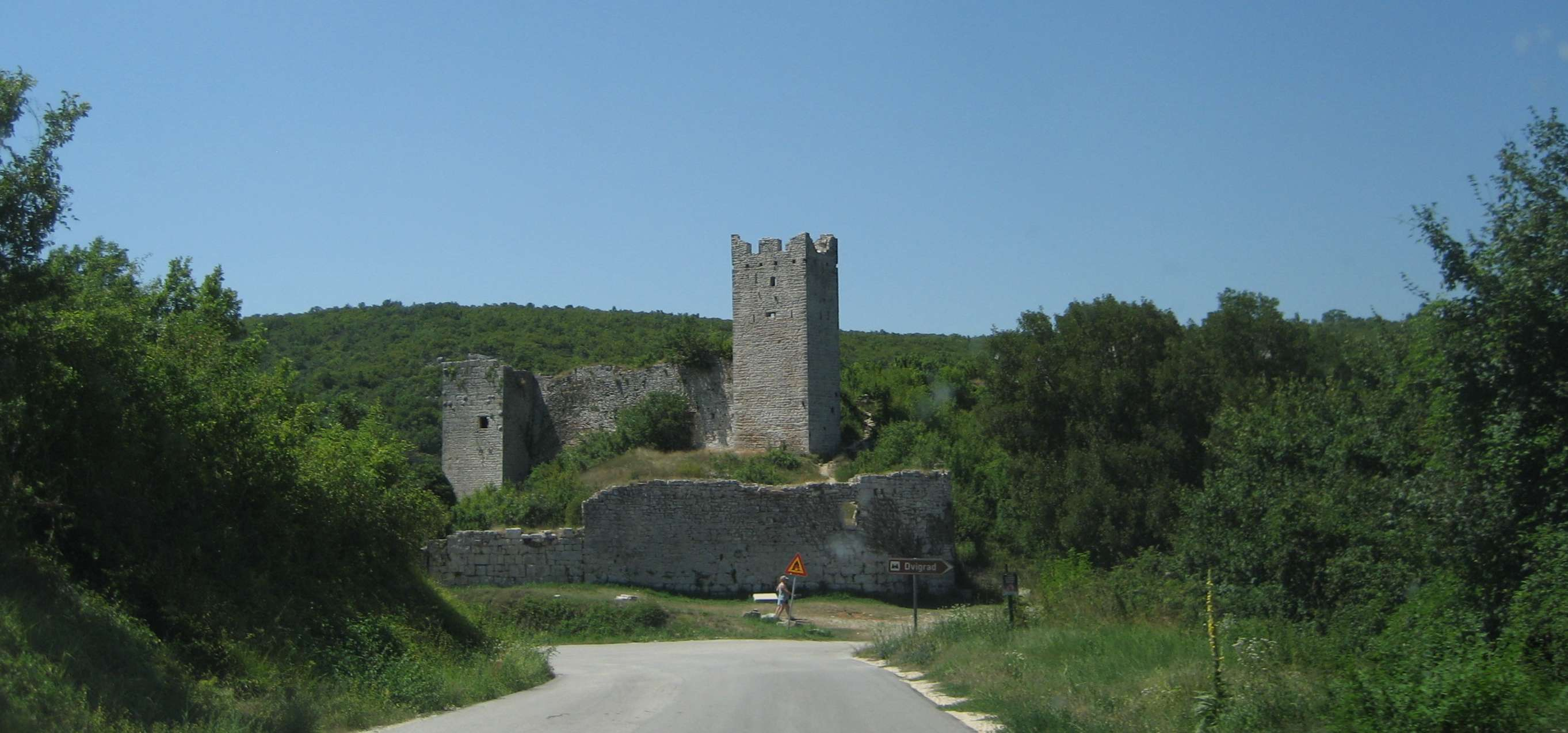 Ruin Dvigrad, Croatia